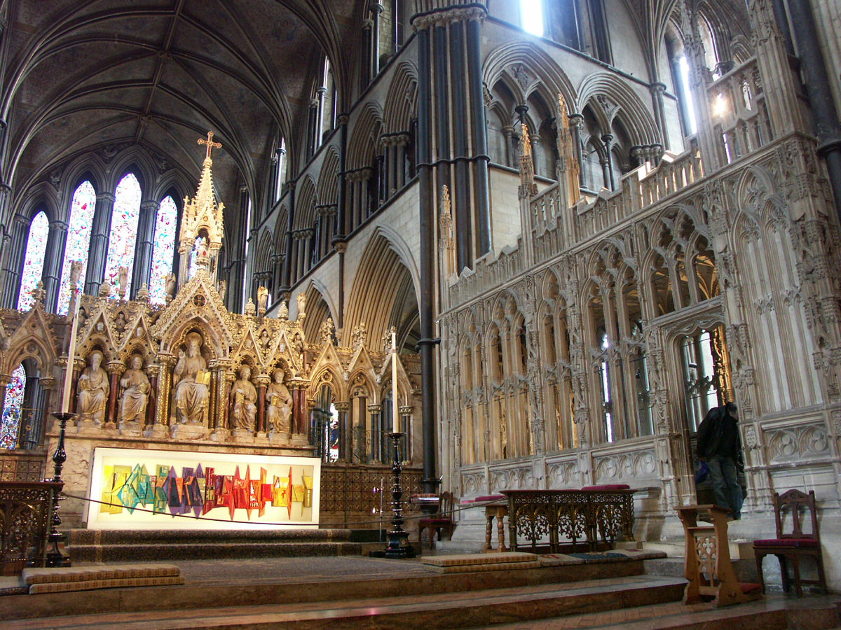 Worcester Cathedral, England - Altar